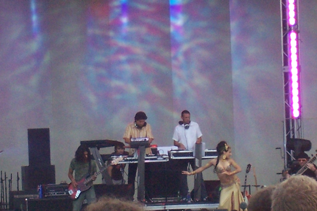 Thievery Corporation